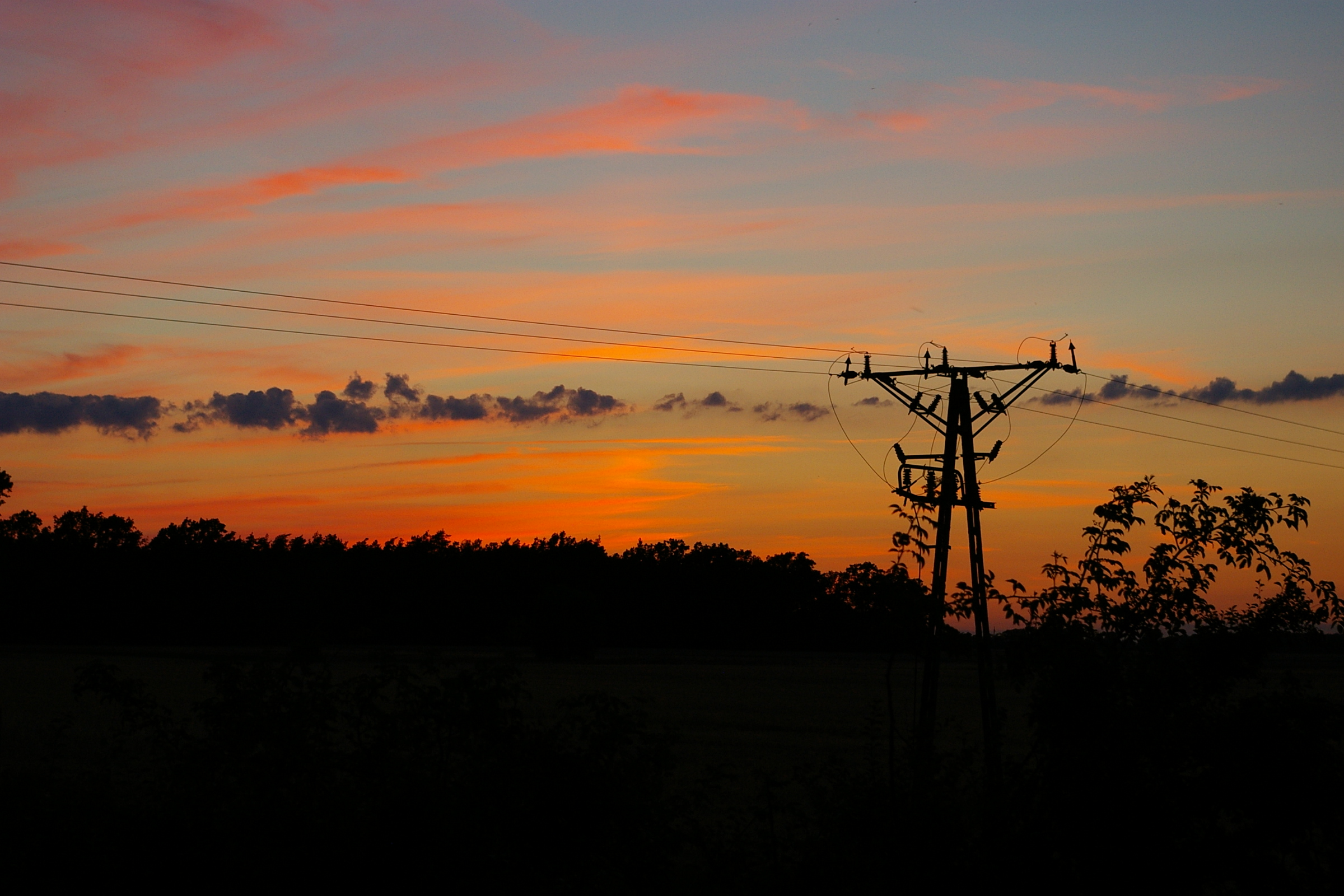 Utility pole near a railway line in Poland